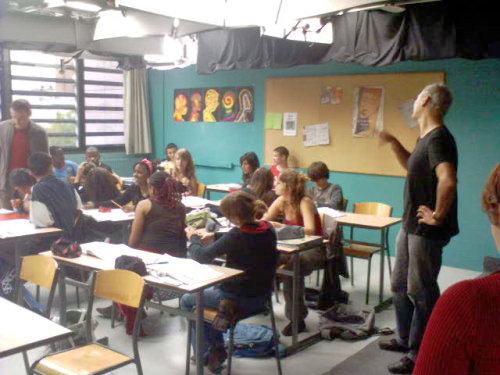 During the shooting of "Entre les murs" in 2007 with Laurent Cantet